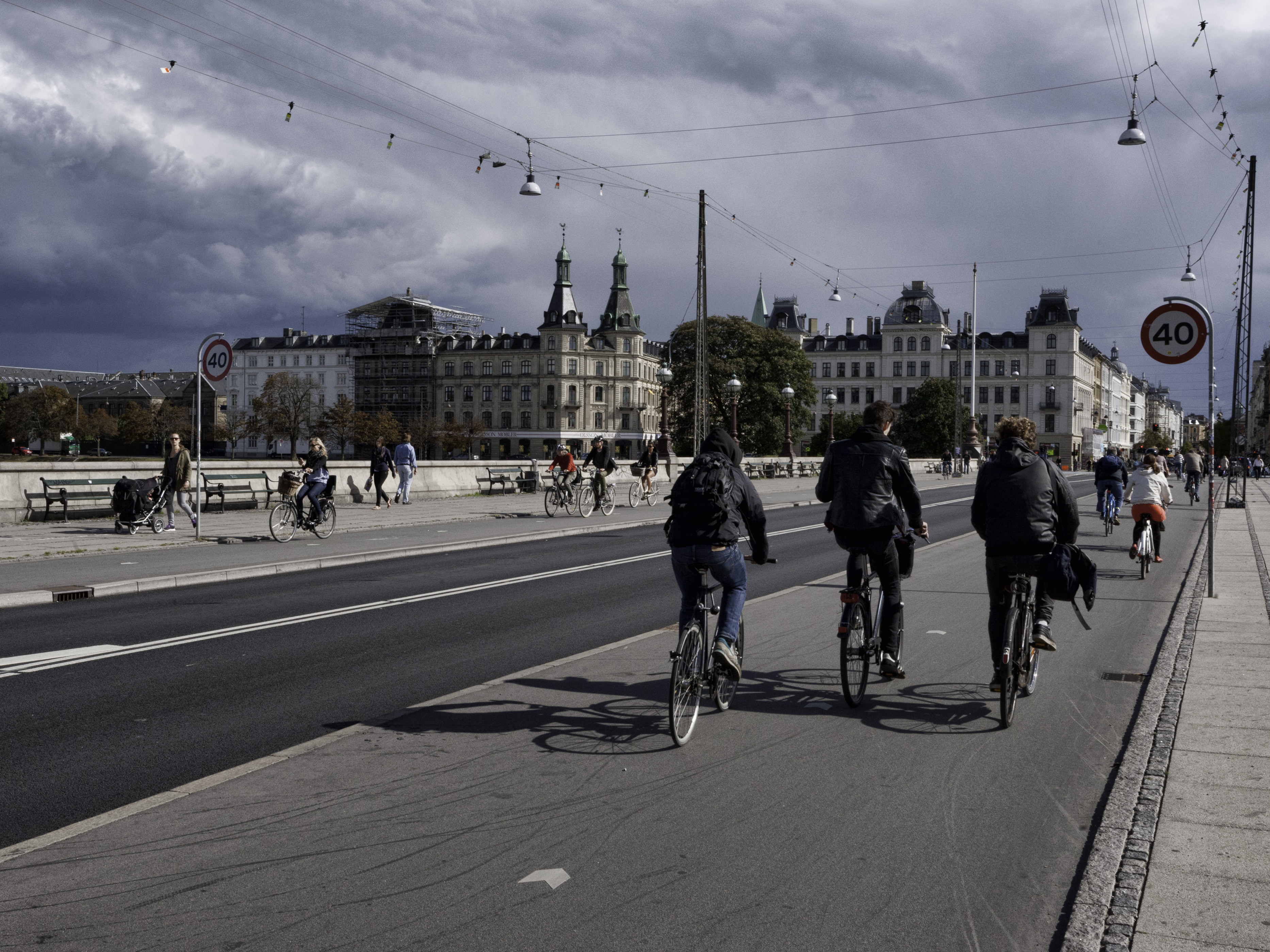 Dronning Louises Bro (lit.: Queen Louise's Bridge), summer 2012. The two wide bikeways was added early 2012 to improve biking.